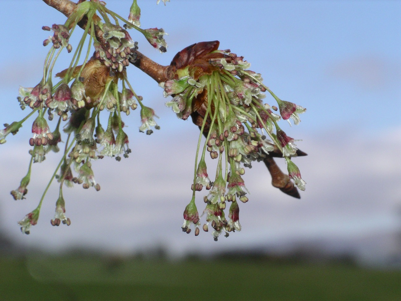 European White Elm Ulmus laevis (not Wych Elm despite the title) flowers at Llandegfan, Anglesey, Wales